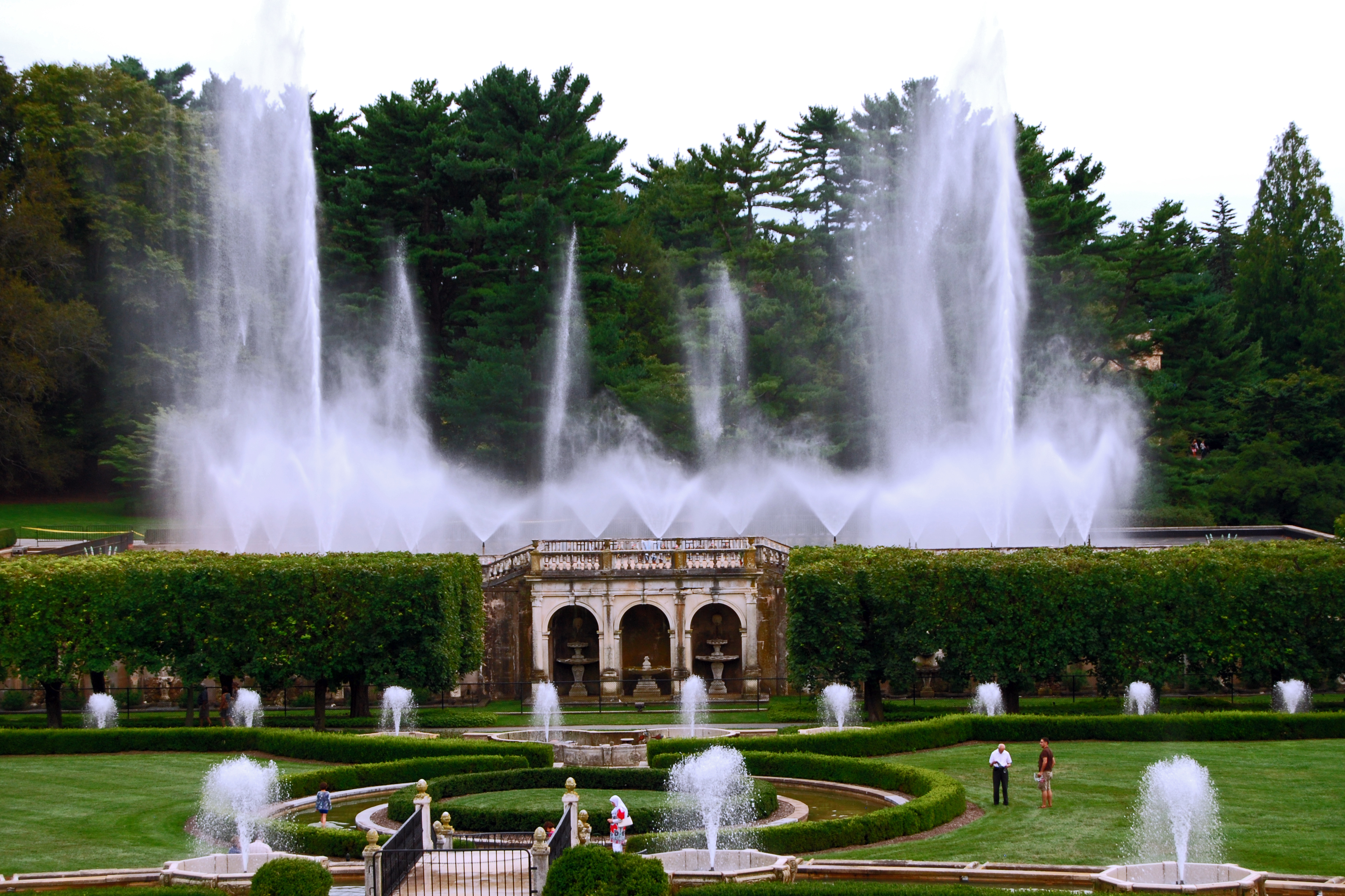 On the Plaza near the Conservatory overlooking the Main Fountain Garden / Featuring 750 jets in changing patterns, this show comes alive with five-minute shows set to music